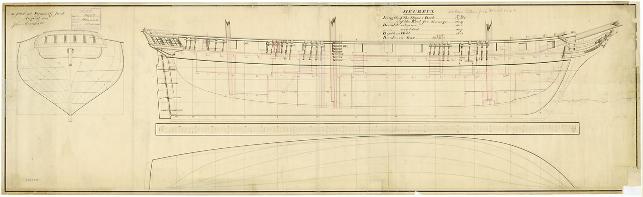 HEUREUX FL.1799 [FRENCH] lines & profile Check progress Book for her capture details - 1799 or 1800 and which ship.